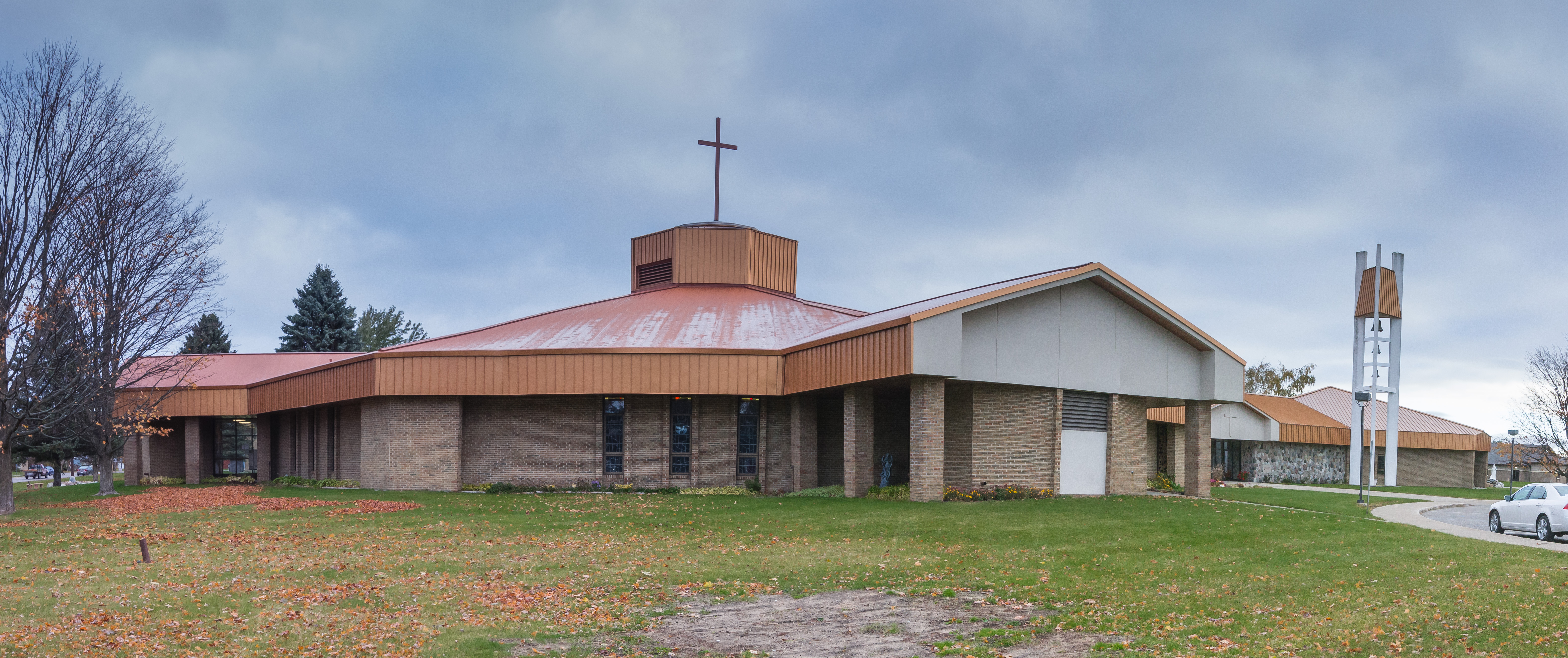 St. Mary, Our Lady of Mount Carmel Cathedral (Gaylord, Michigan)